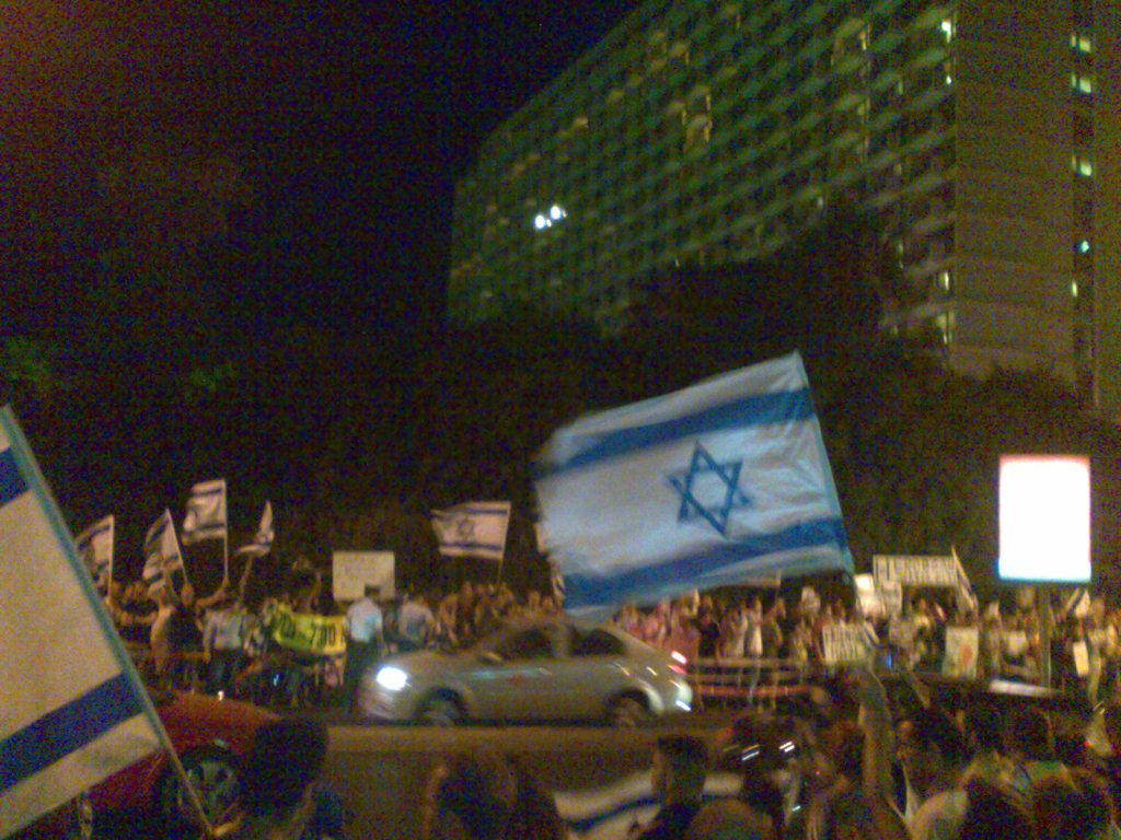 Protest demonstration near Turkish embassy, Tel-Aviv